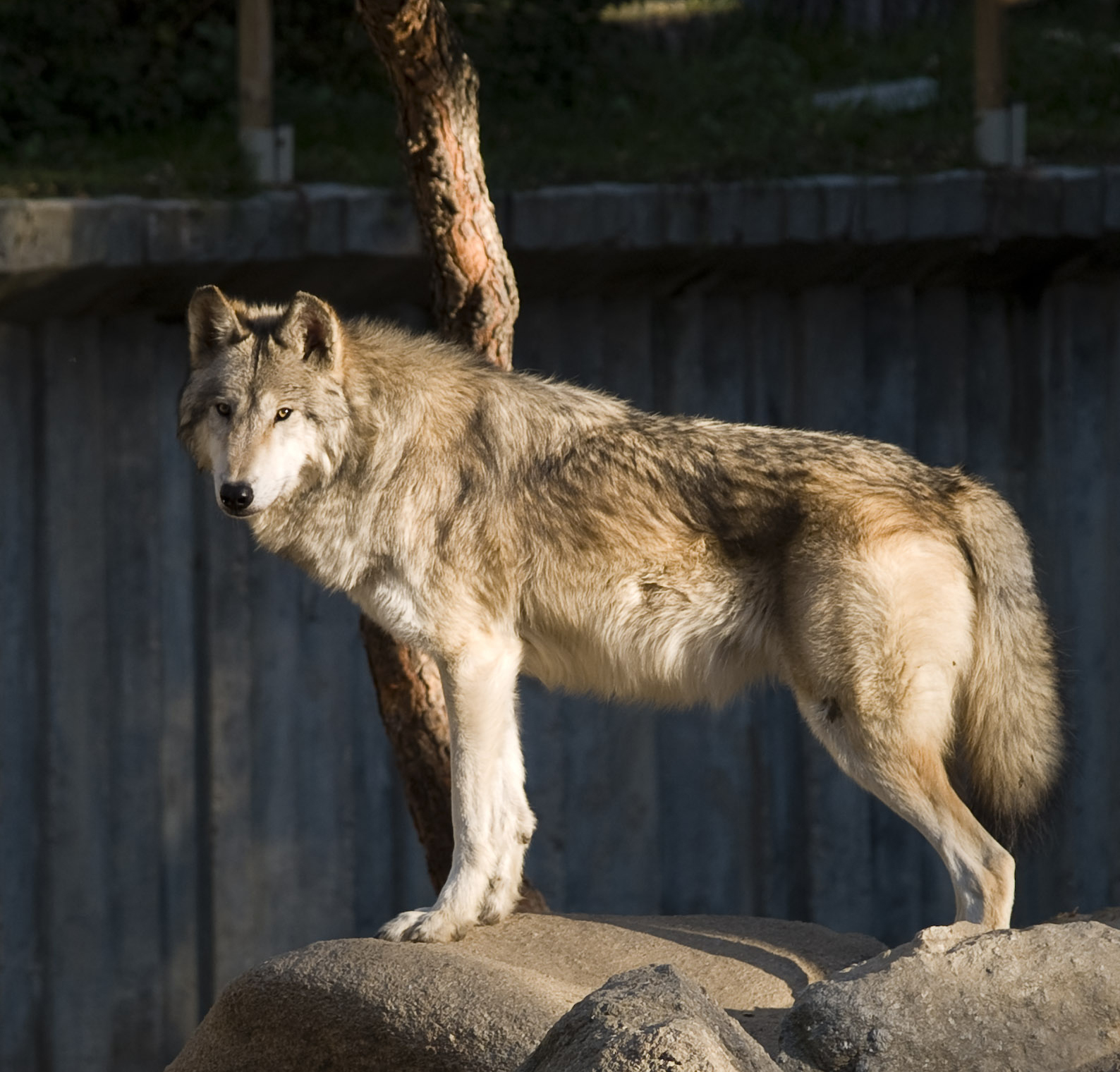 A Mackenzie Valley Wolf (Canis lupus occidentalis) in Madrid's Zoo (Spain).